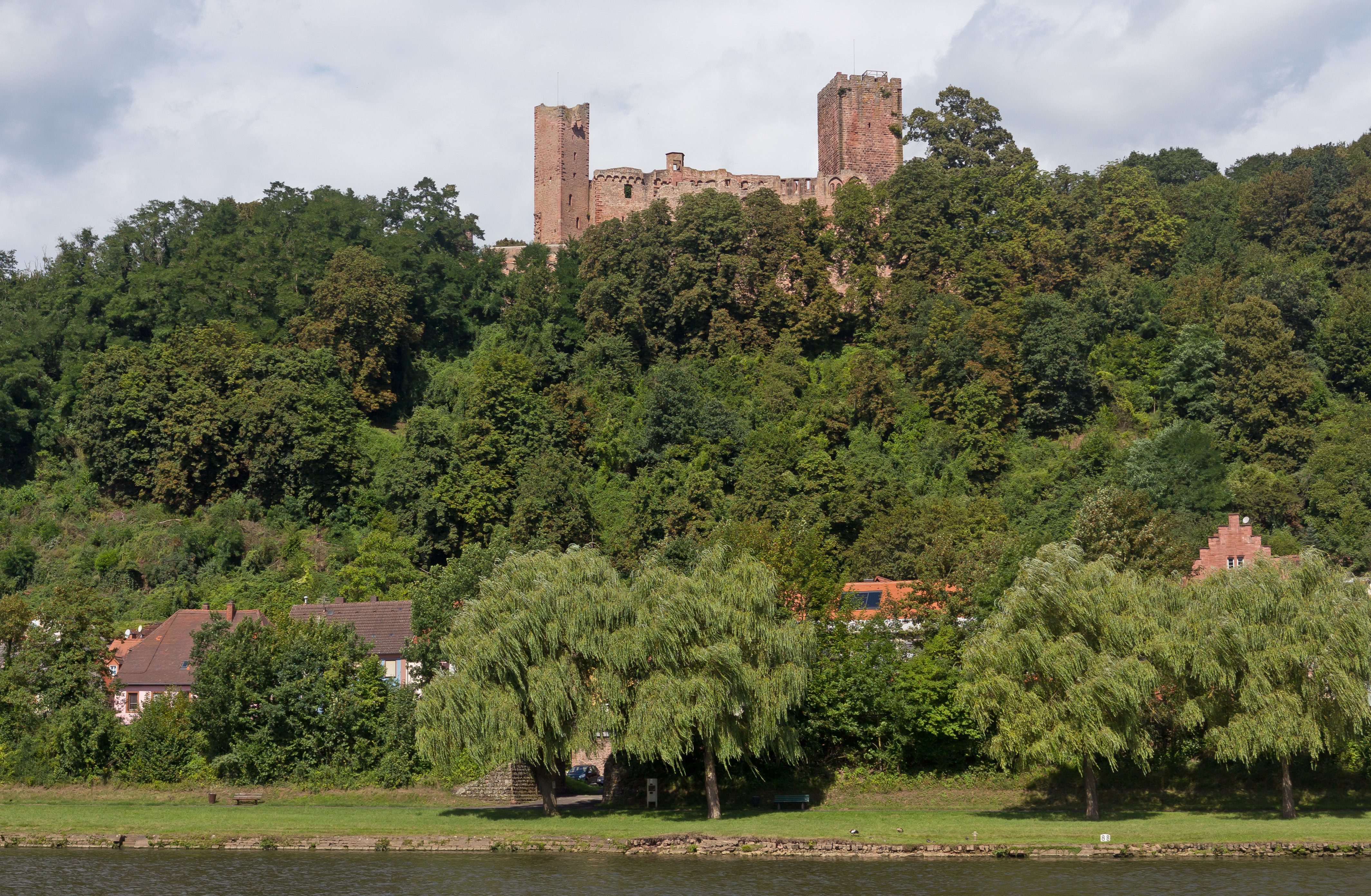 Stadtprozelten, ruïns: Burgruine HenneburgThis is a photograph of an architectural monument.